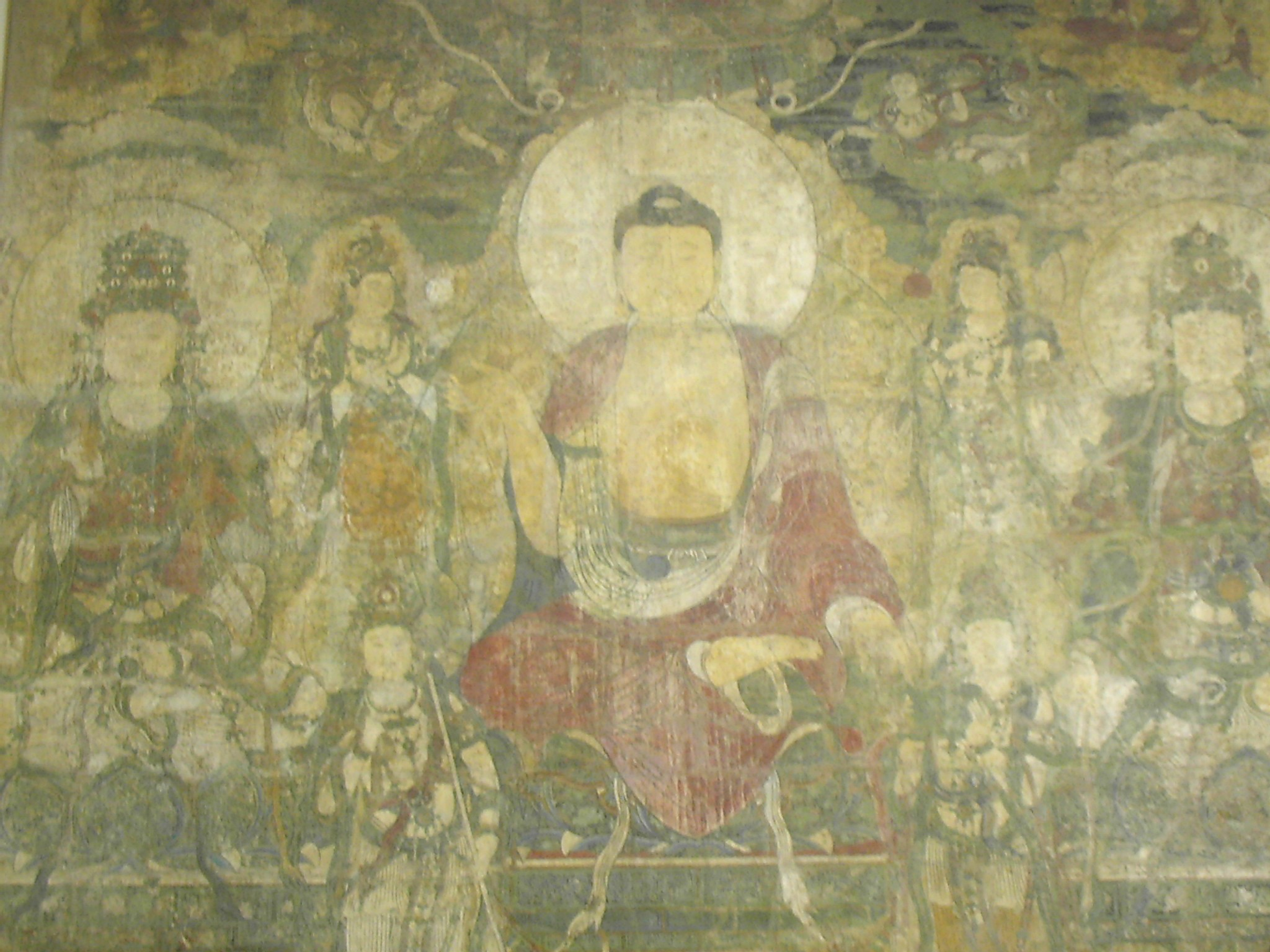 The Pure Land of Bhaisajyaguru, i.e. the Buddha of Medicine, a painting with a water-based pigment over a foundation of clay mixed with straw, dated to mid Yuan Dynasty (1271–1368) of China. The whole of this large wall mural was given to the Metropolitan Museum of Art as a gift by Arthur M. Sackler, in honor of his parents, Isaac and Sophie, in 1965.